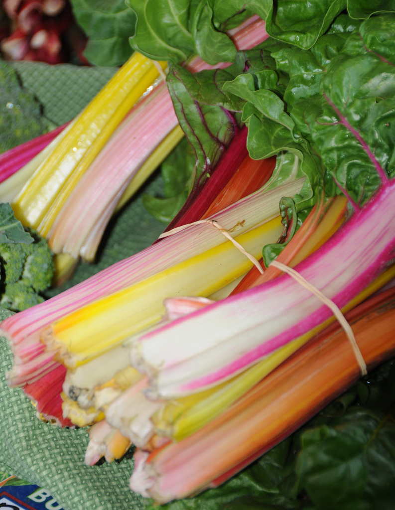 Swiss chard is so pretty